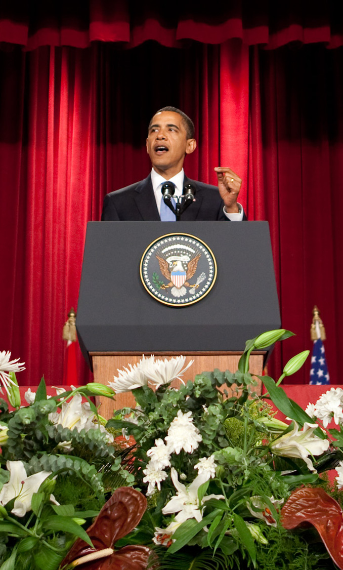 President Barack Obama speaks at Cairo University in Cairo, Thursday, June 4, 2009. In his speech, President Obama called for a 'new beginning between the United States and Muslims', declaring that 'this cycle of suspicion and discord must end'. (Official White House Photo by Chuck Kennedy)